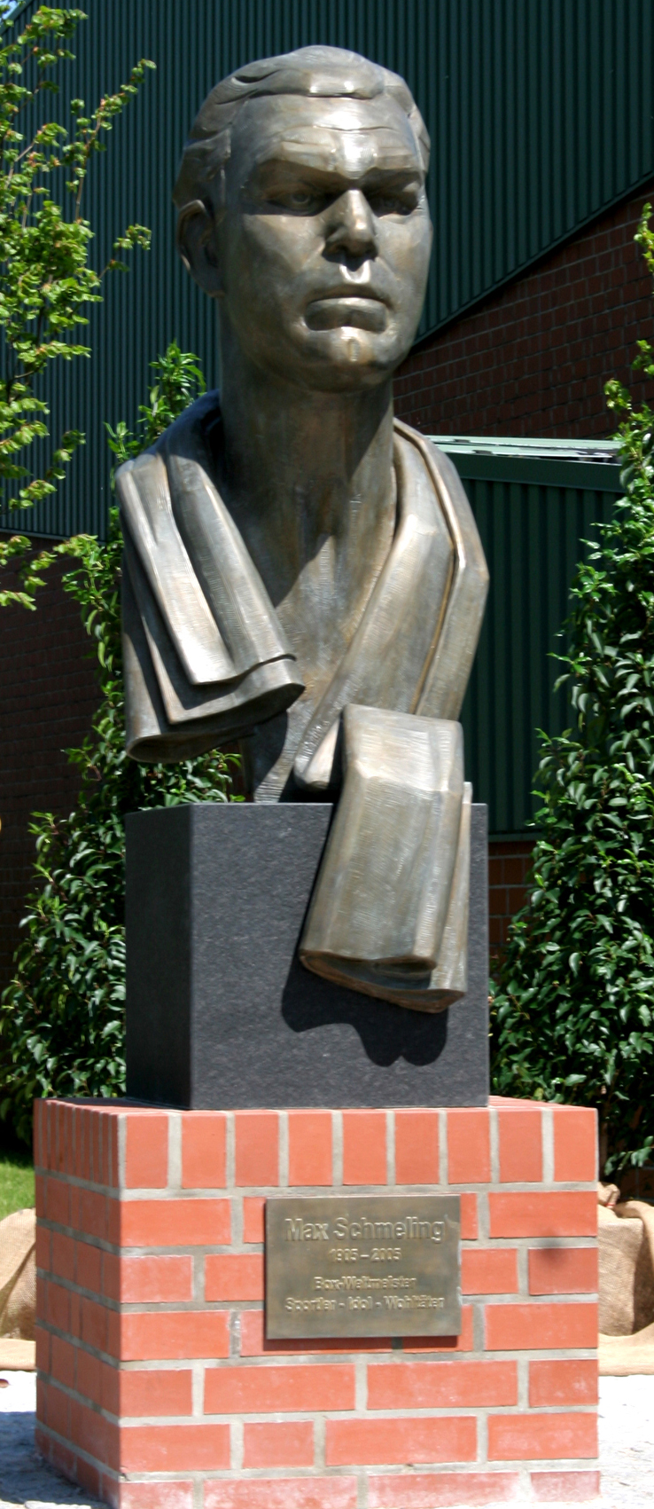 Max Schmeling monument bronze